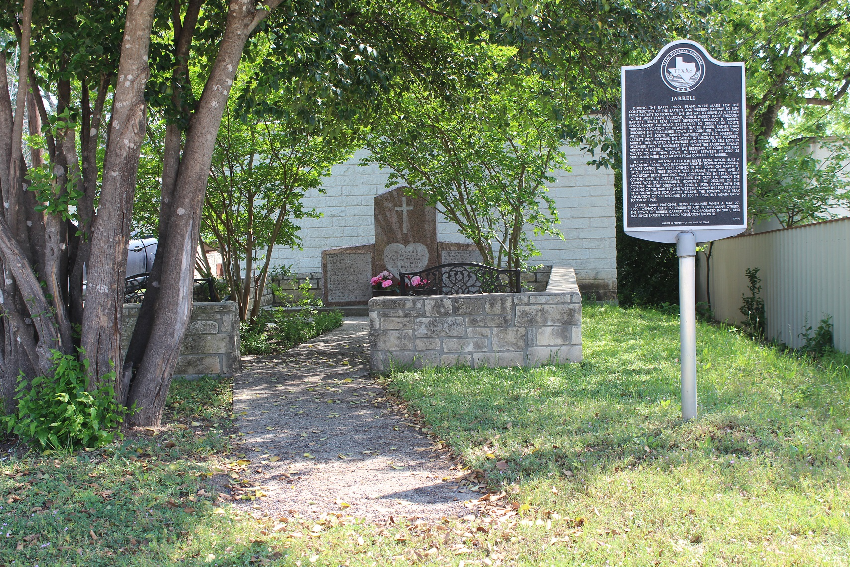 Jarrell. #15926 original location. The marker and memorial behind it were moved to Jarrell Memorial Park in 2019.